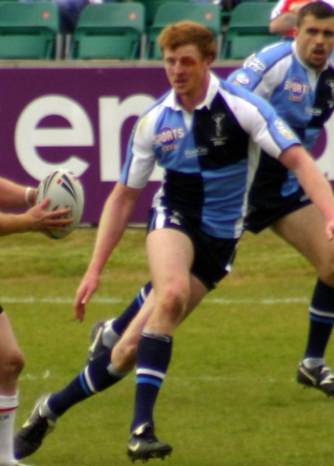 Jon Grayshon & Chris Melling